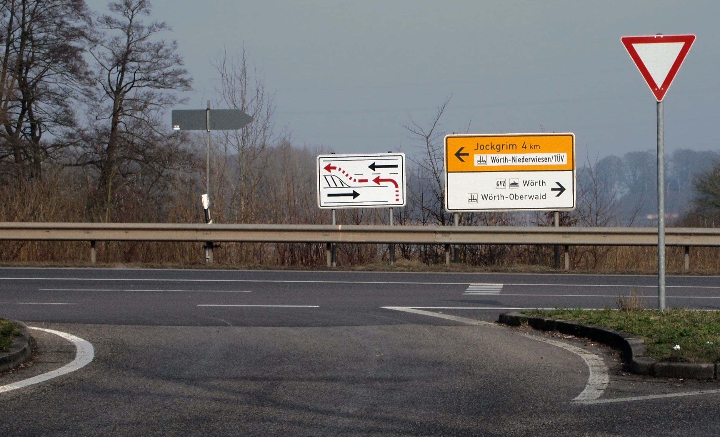 Left-turn merging lane, usable only if explained by a signboard.